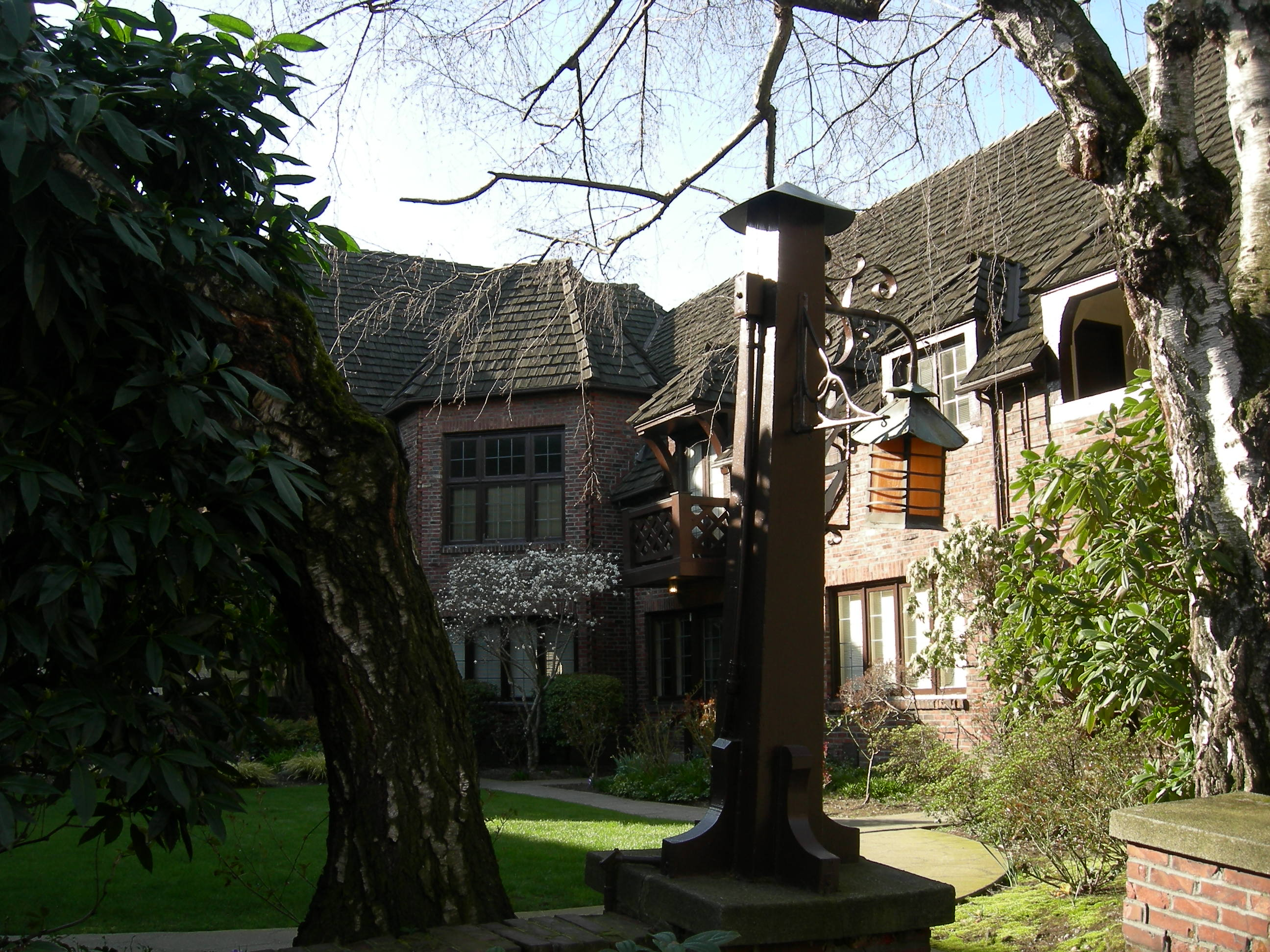 Borchert Company Apartment Building (1928–1929), 417 Harvard Ave. E., Capitol Hill, Seattle, Washington. Designed by Frederick Anhalt.